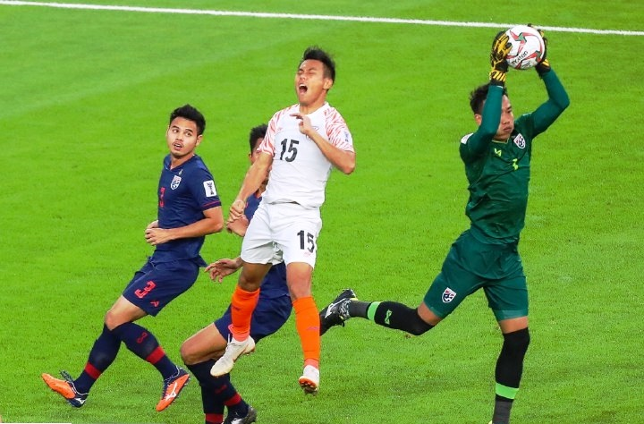 Uddanta Singh, trying a header from a free kick during group match against Thailand in 2019 AFC Asian Cup